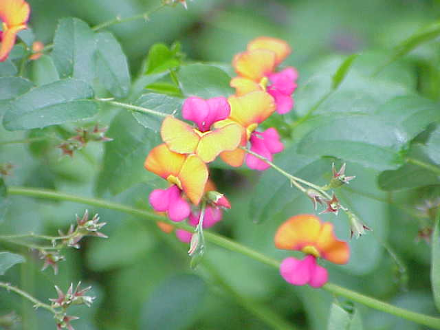 Species: Chorizema cordatum Family: Fabaceae Image No. 2